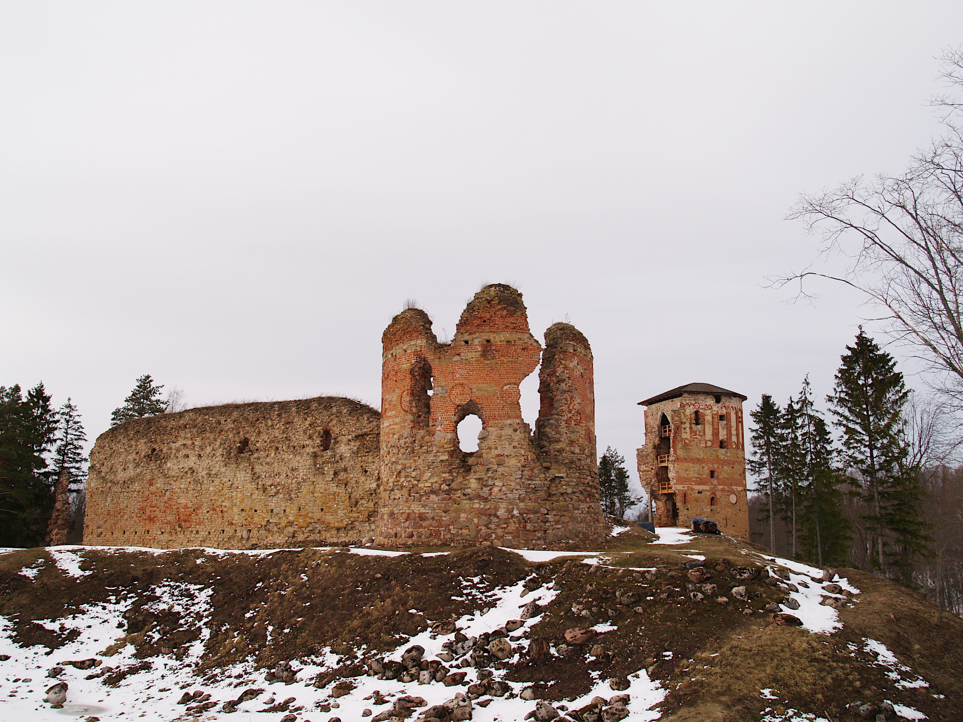 Vastseliina Castle (? Vastseliina Episcopal Castle) in South Estonia.